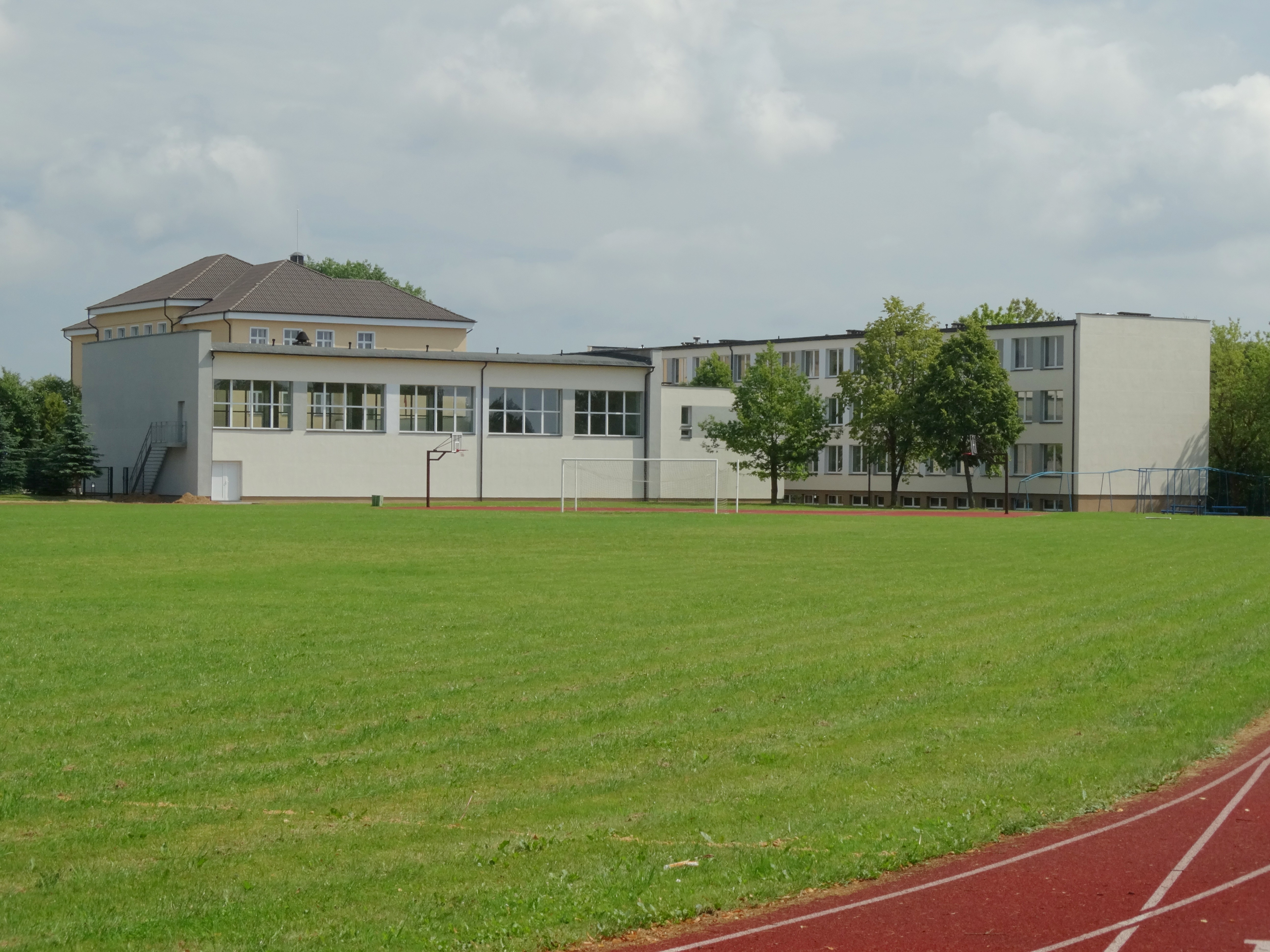 Gymnasium, Venta, Akmenė district, Lithuania